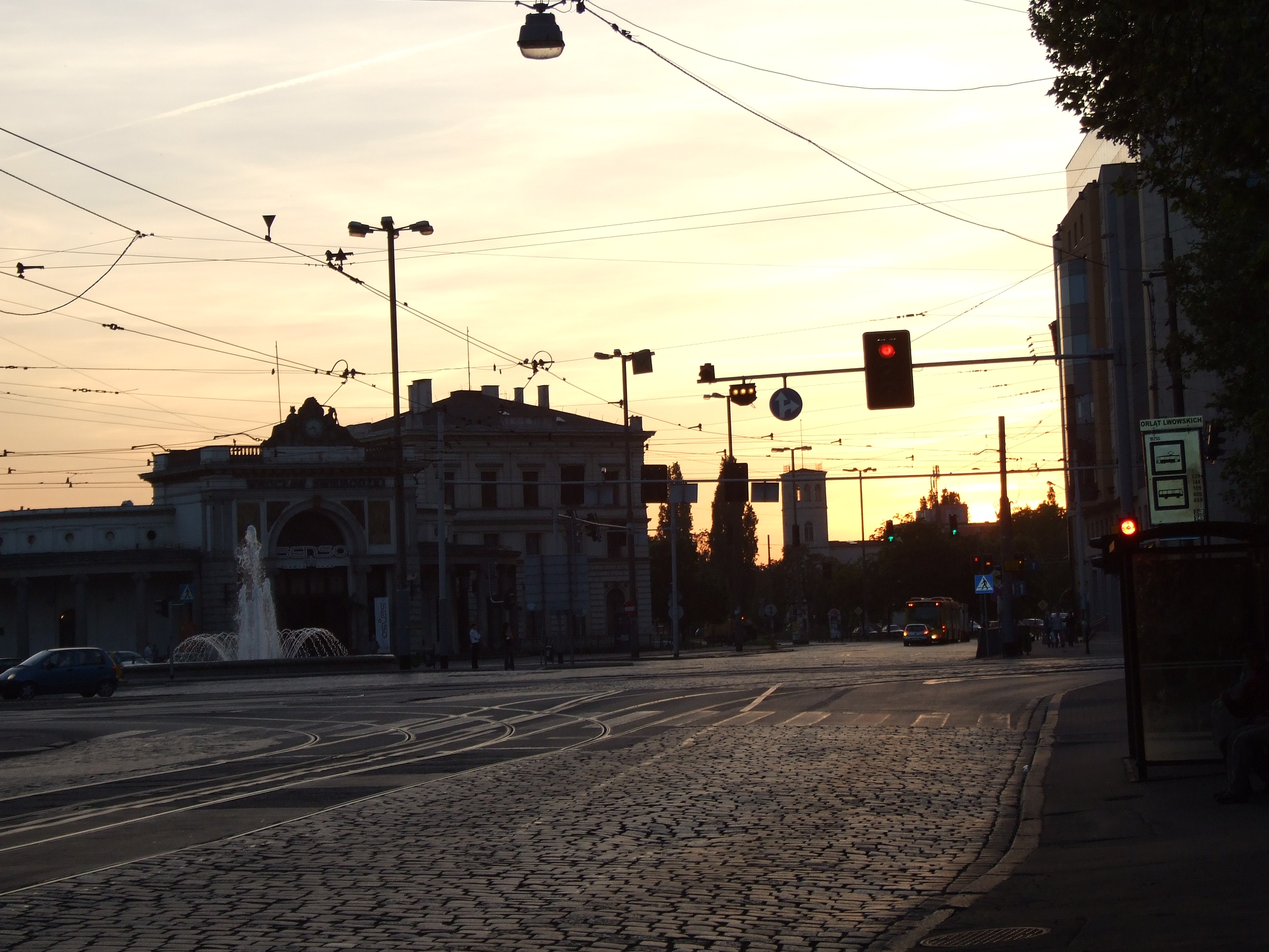 Plac Orląt Lwowskich widziany od strony Podwala. Linie : 139,144,149,406,409.